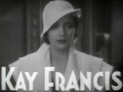 Cropped screenshot of Kay Francis from the trailer for the film The Keyhole